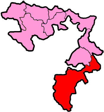 The ninth electoral unit of Republika Srpska (NSRS) shown within Bosnia and Herzegovina.